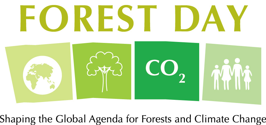 Forest Day 1 Logo